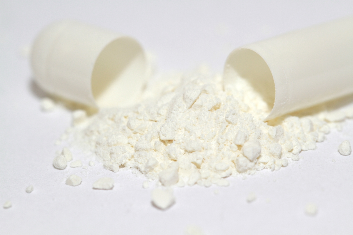 The capsule nutritional supplement colostrum.